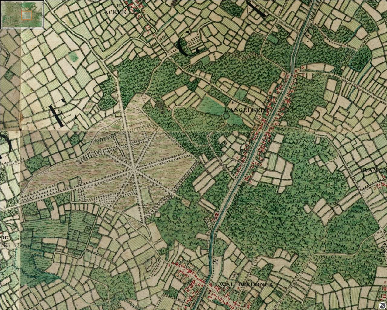 Kloosterbos, Belgium on Ferraris map